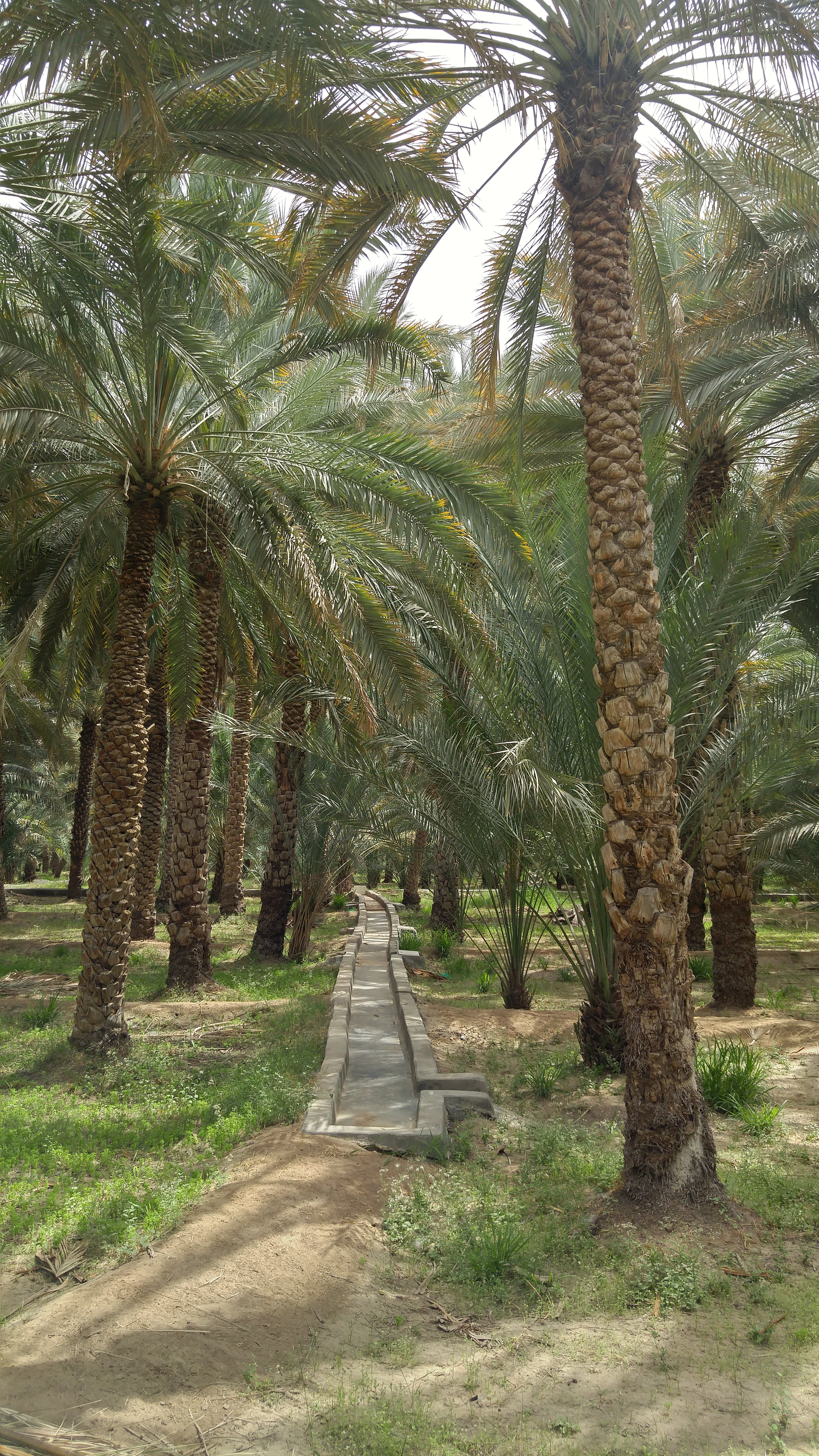 A traditional falaj irrigation system at Al Ain Oasis